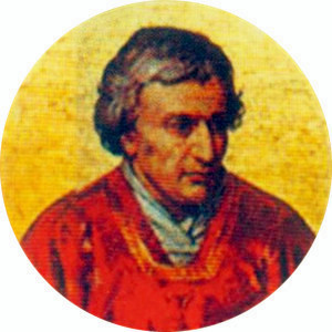 Portait of Pope John XIX in the Basilica of Saint Paul Outside the Walls, Rome